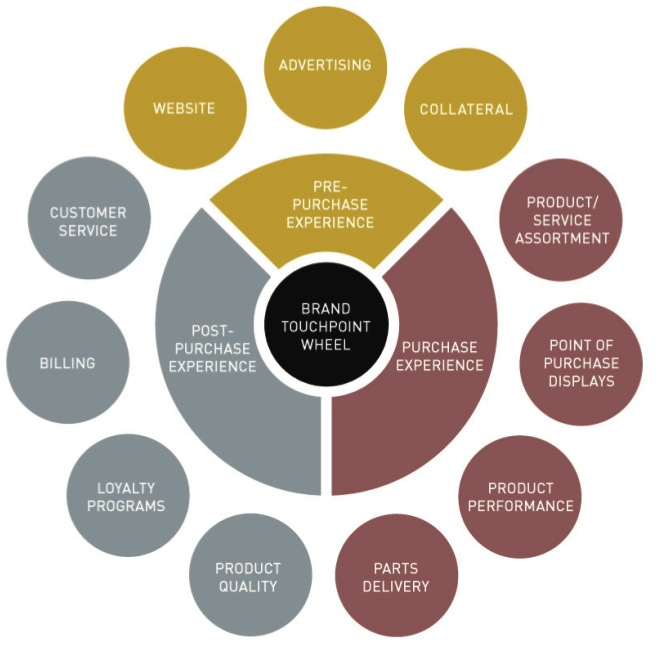 Davis, S. (2013). Brand touch point wheel, Madrid, Spain: Brand Smith, retrieved from on 31/03/2016